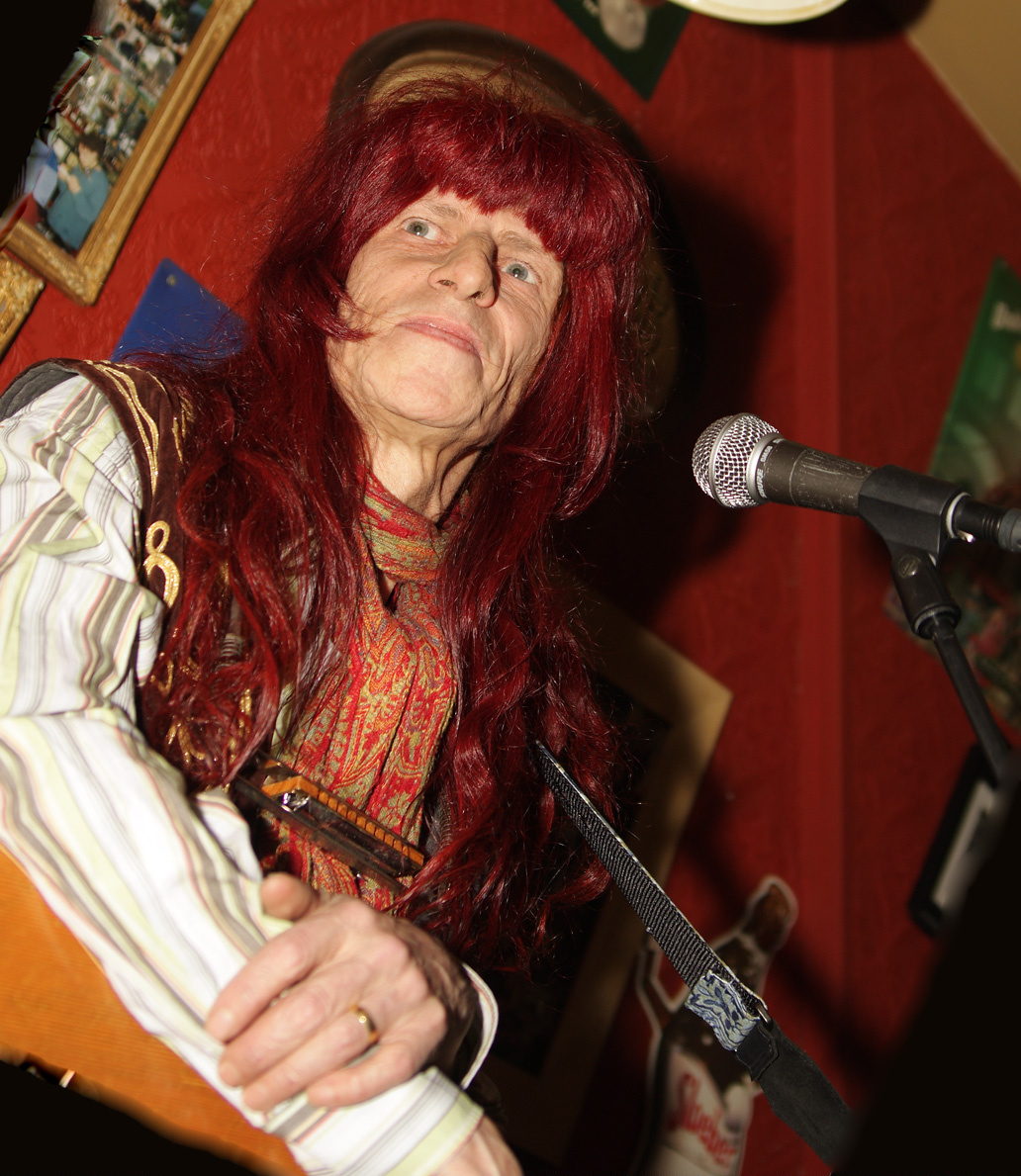 Herman George van Loenhout (born 10 April 1946 in Eindhoven), better known as Armand, is a Dutch protest singer. * From image caption: Armand in Marktzicht LV-Kerkhof opening Amersfoort 750.